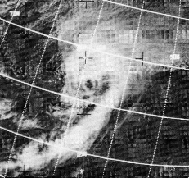 This image of Hurricane Inga was taken by the ESSA 9 weather satellite on October 5, 1969 at 1757 UTC